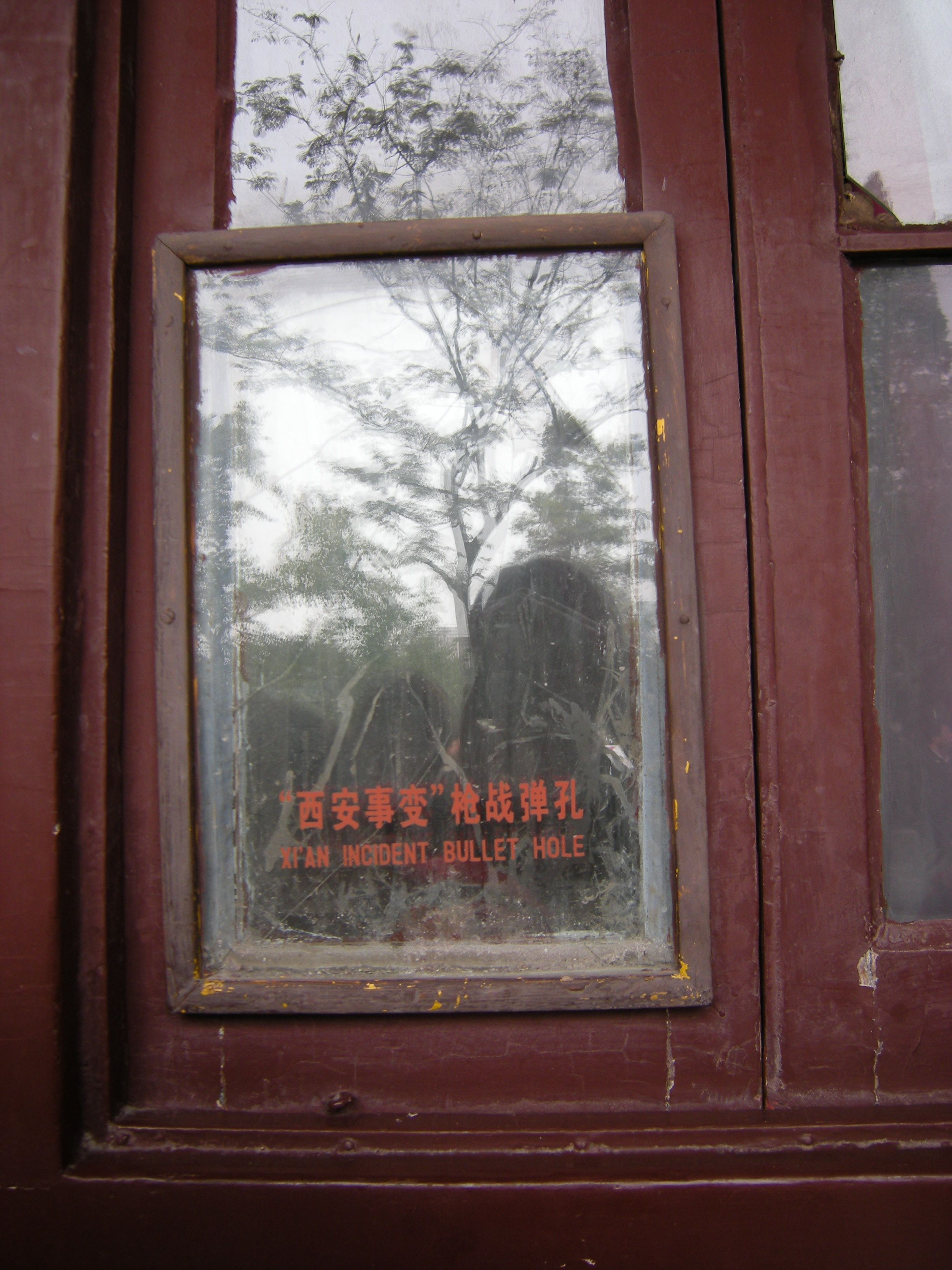 Bullet hole caused during the Xi'an incident.